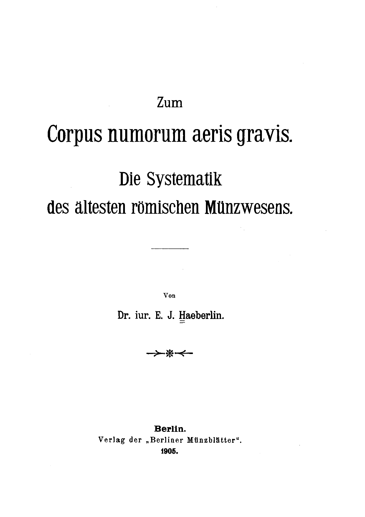 The systematic of the oldest Roman coins by Ernst Haeberlin (in German): titel page